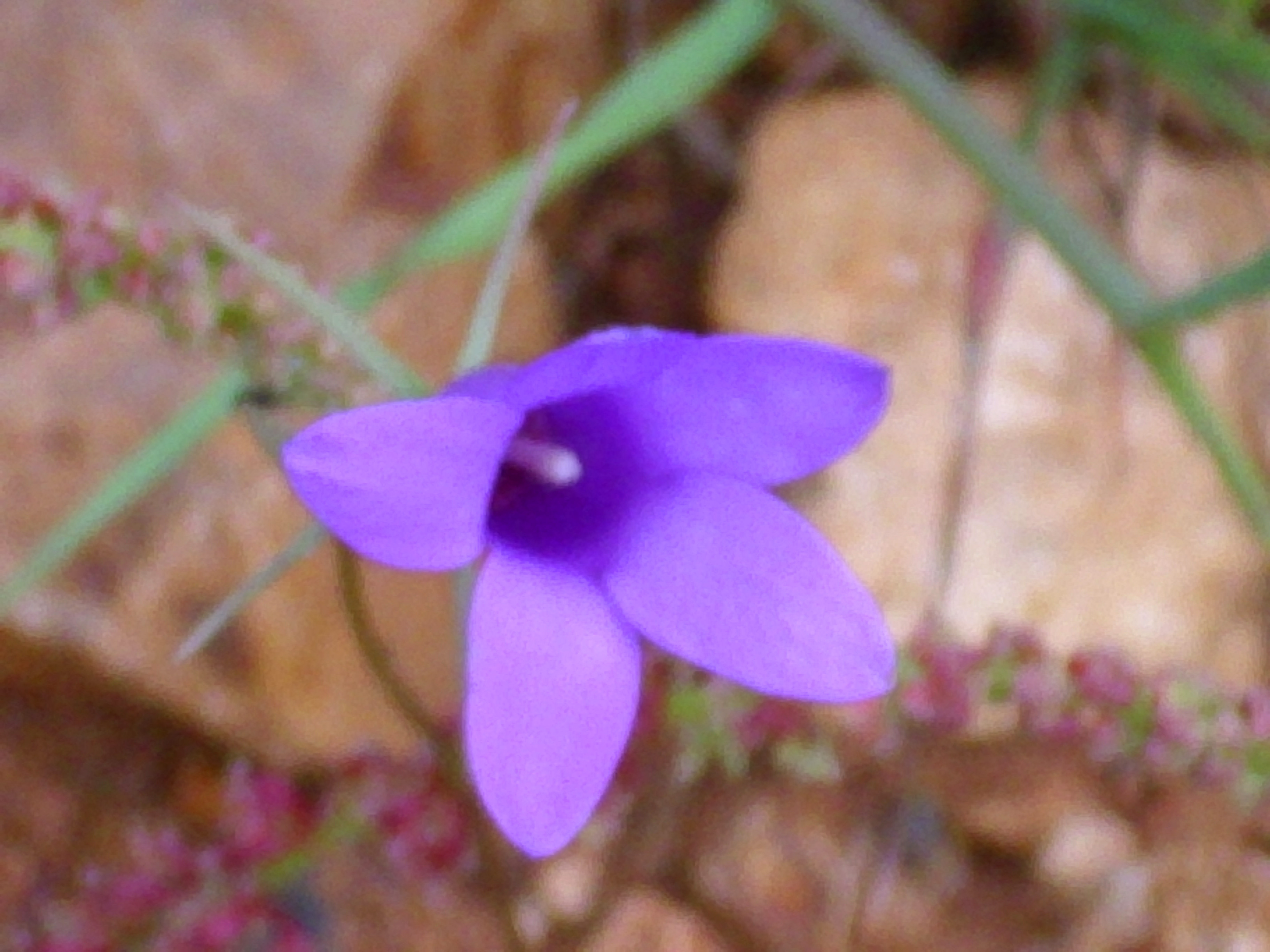 Campanula lusitanica close up, Dehesa Boyal de Puertollano, Spain